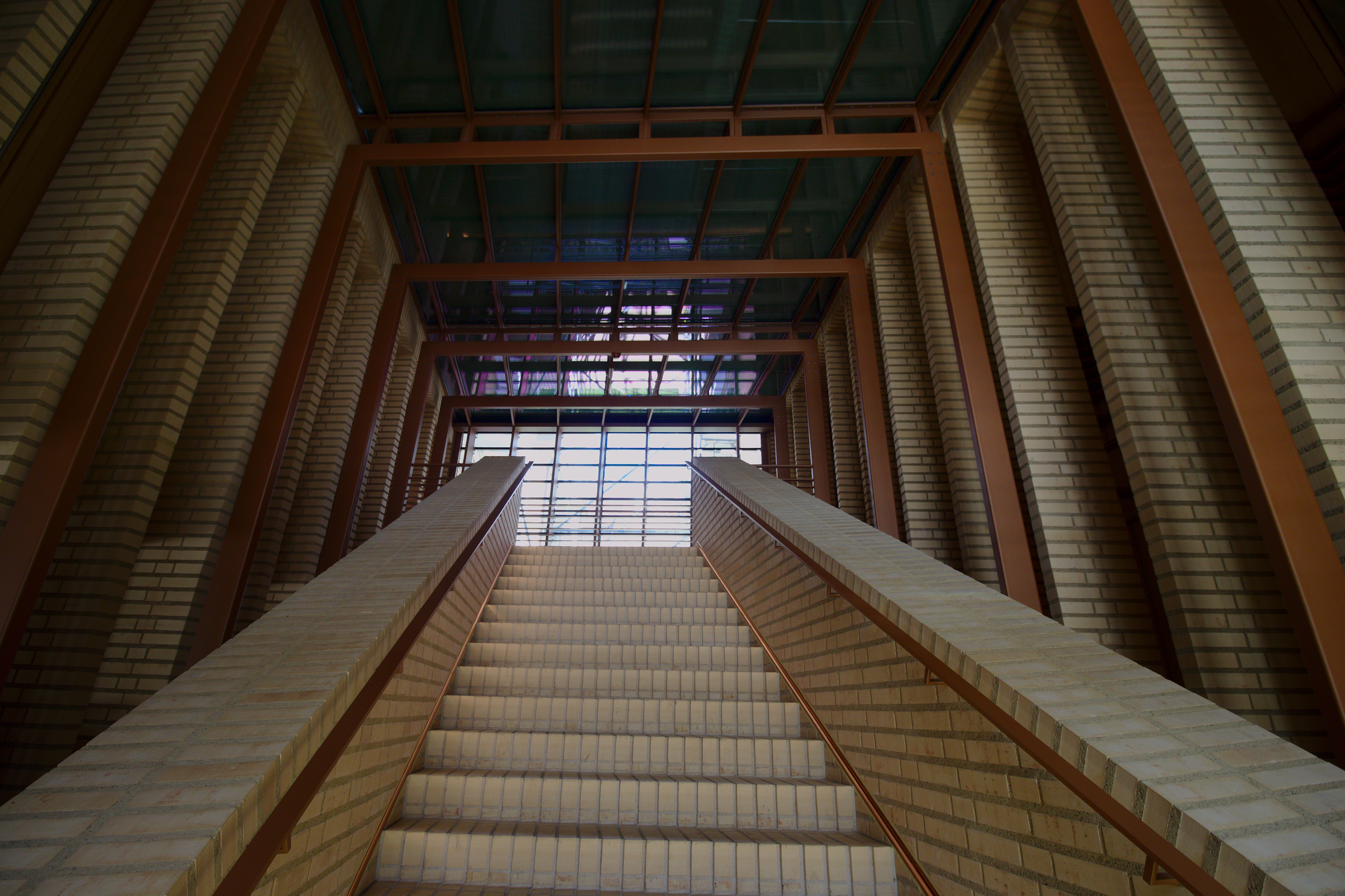 Landtag of the Principalty of Liechtenstein in Vaduz (building known as “Hohes Haus”)